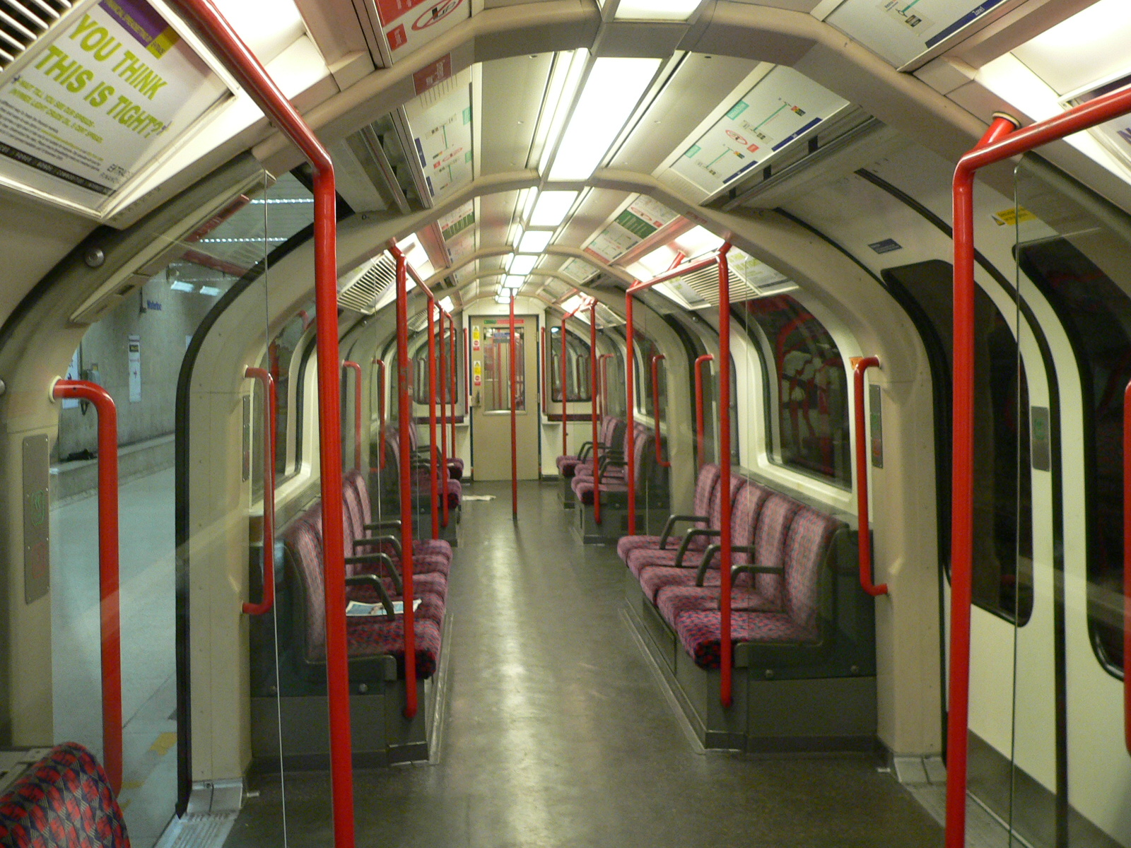 The interior of a London Underground 1992 tube stock Waterloo & City Line train at Waterloo station on 24 October 2005.